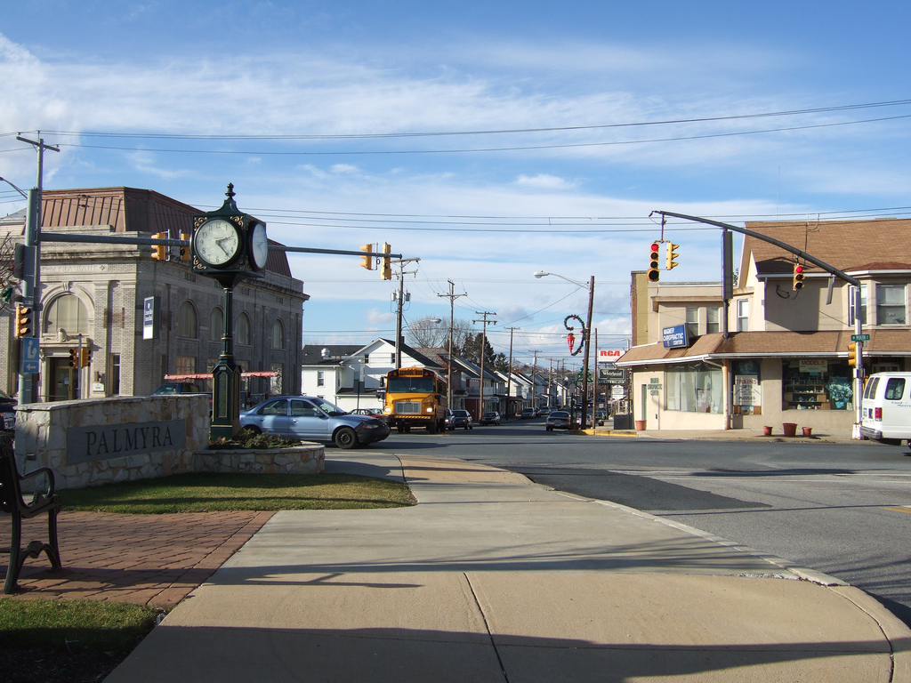 The square